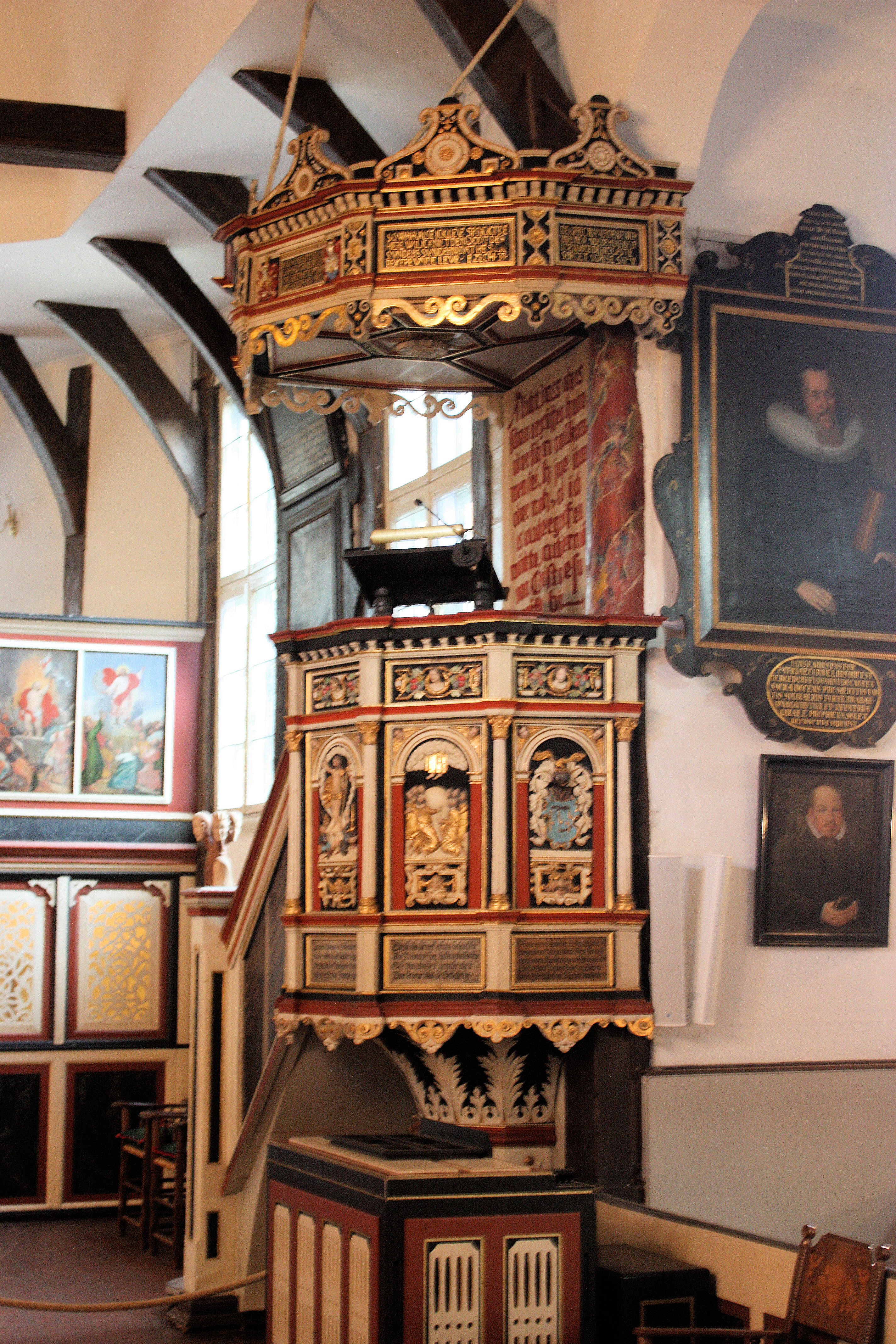 Bergedorf (Hamburg), the church St.Petri und Pauli, the pulpit